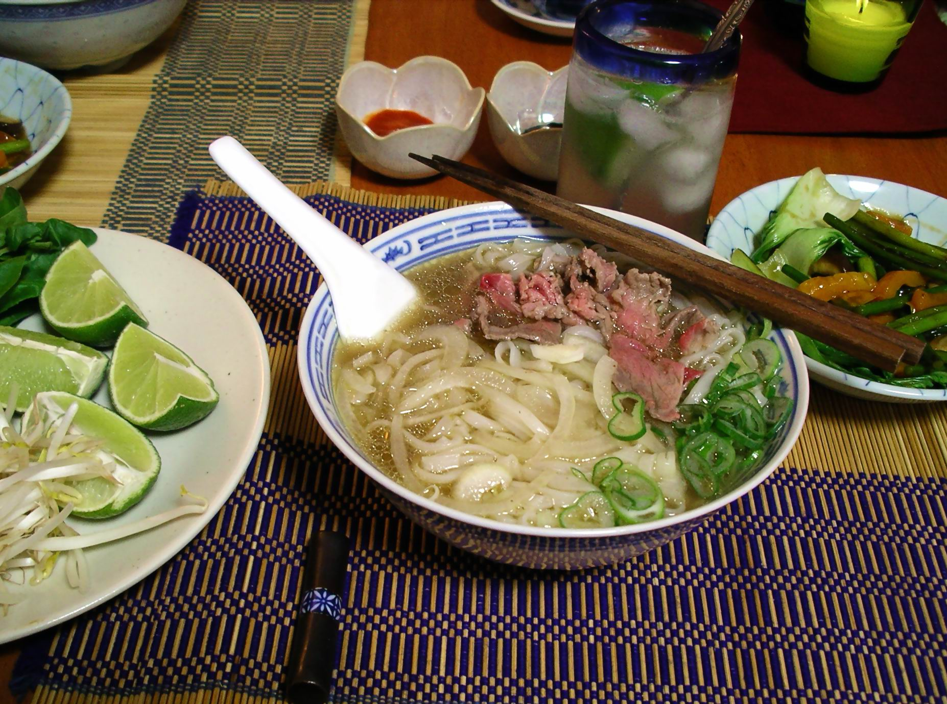 Pho bo (Vietnamese rice noodle soup with beef). For more, see here: Blue Lotus